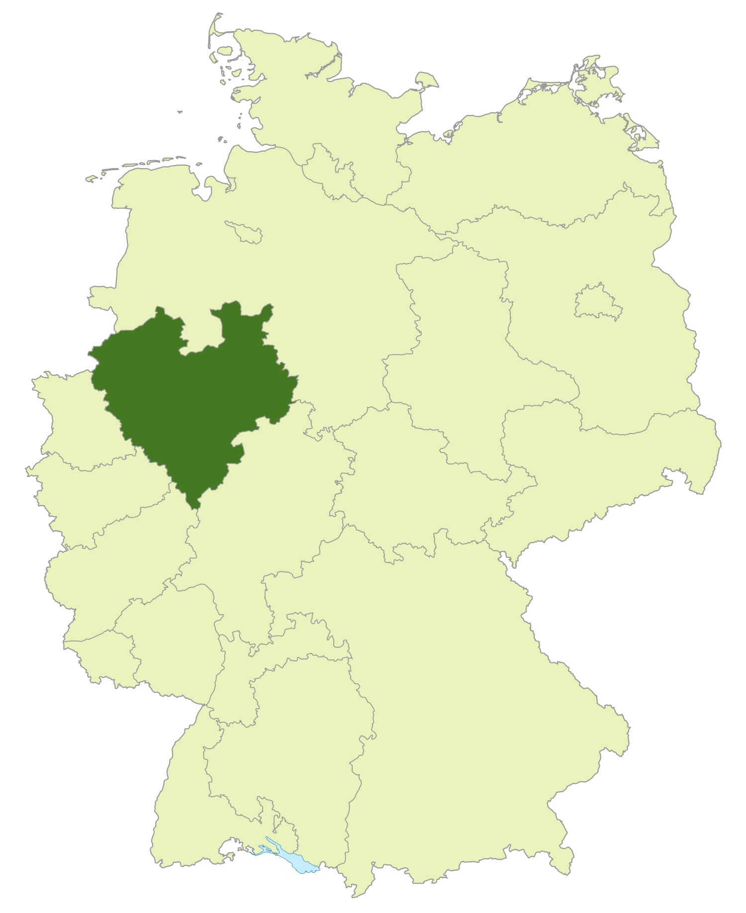 Map of regional soccer association Westfalen, Germany